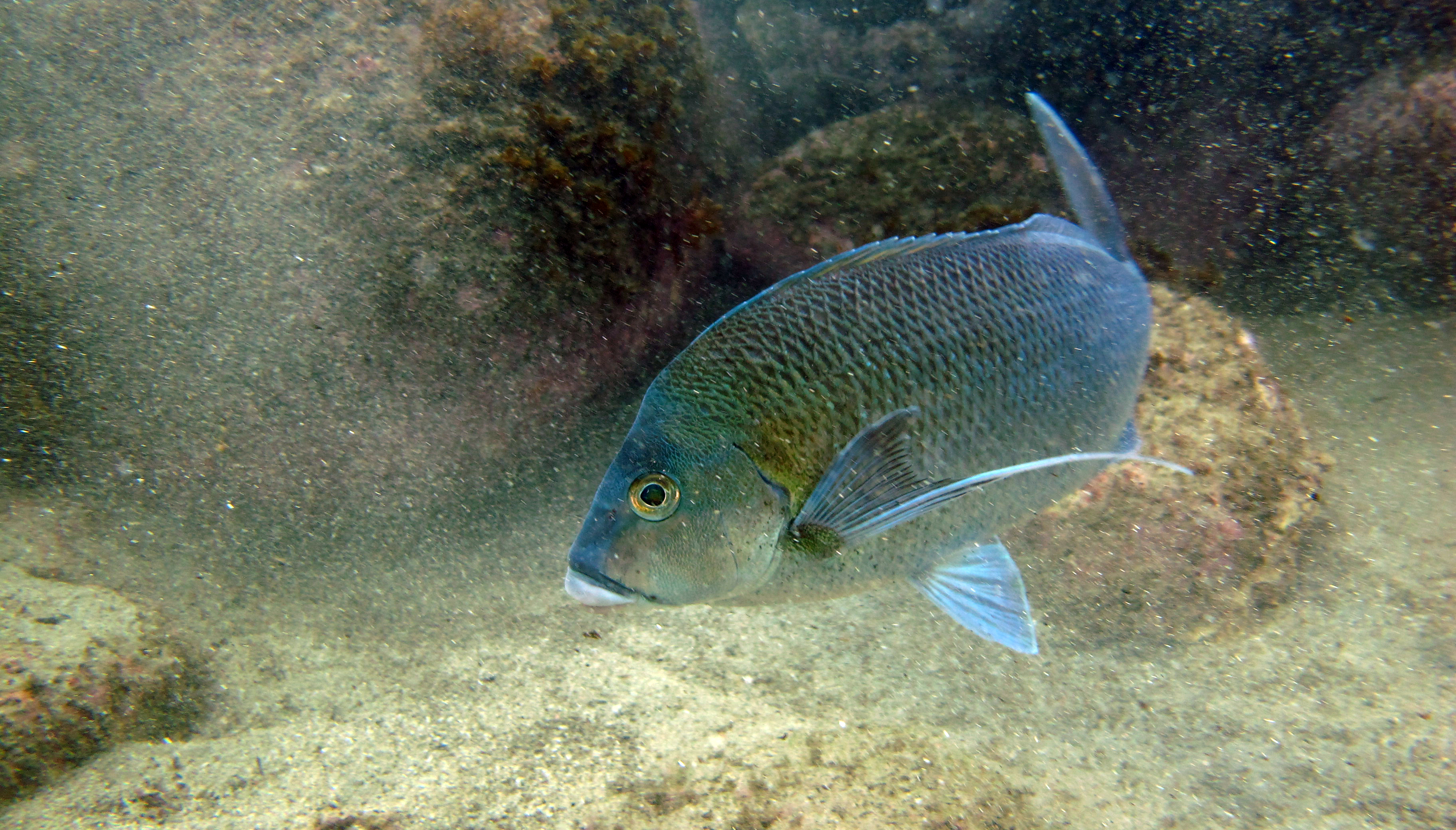 Shelly Beach, Manly, Sydney, NSW